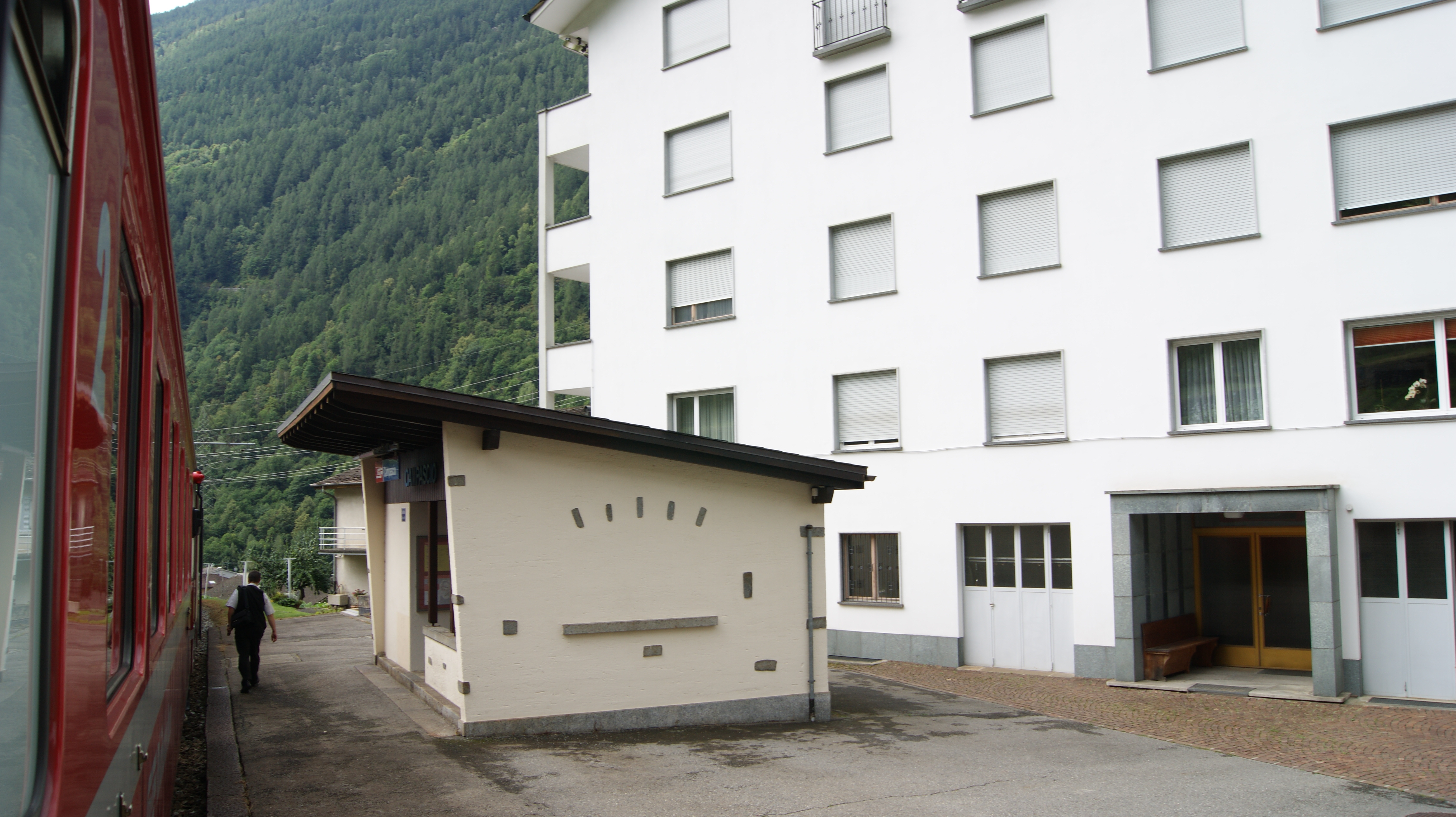 Train station Campascio of the Berninabahn (Bernina Railway) in the municipality of Brusio, Grison, Switzerland.